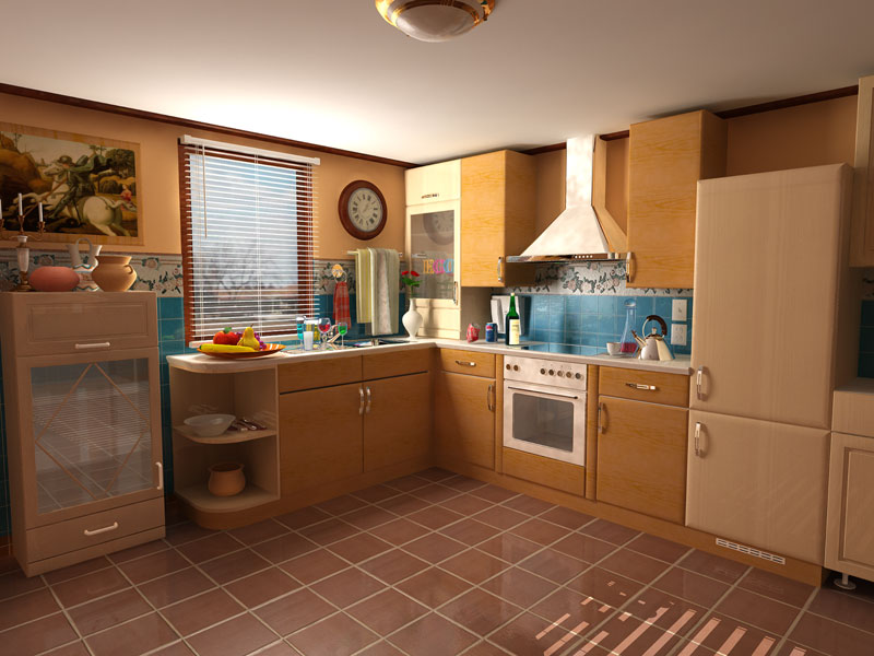 VRay style Mental ray for Maya rendering test! Maya Nurbs and Poly Modeling, Mental Ray Area Lights, Image Based Lighting and Final Gather! Ambient Occlusion and final output to EXR format! Modeling, texturing and rendering by Alex Sandri. Keywords: 3d, Autodesk, Maya, Cg, Digital, Art, Architecture, Visualization, Bangkok, Thailand, Koh, Samui, Alex, Sandri, Graphics, Animations, Rendering, Mental Ray 3D Autodesk Maya & Mental ray Architectural Visualizations.